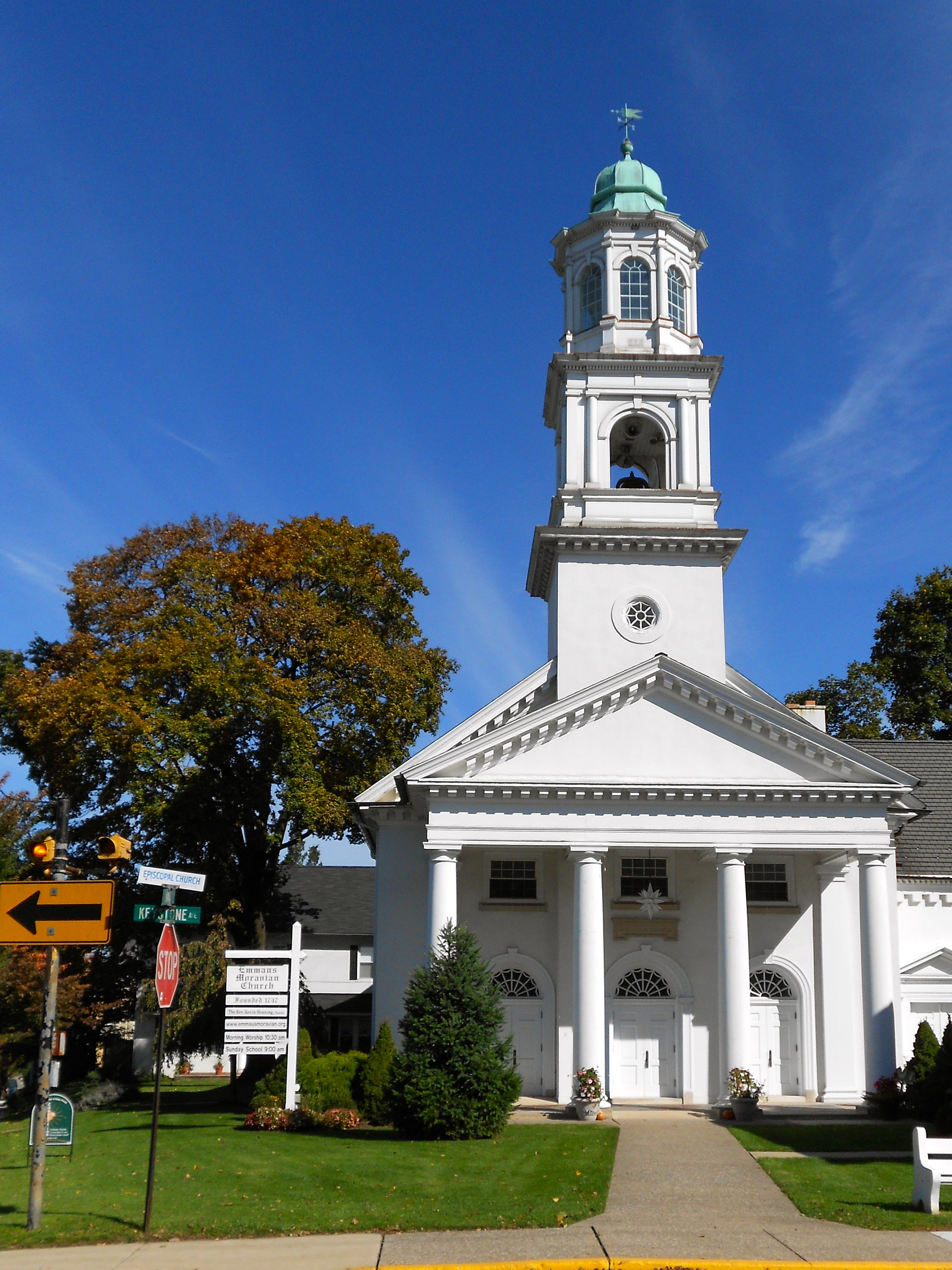 Moravian Church in Emmaus, Lehigh County, Pennsylvania - the area is a hotbed of Moravianism!